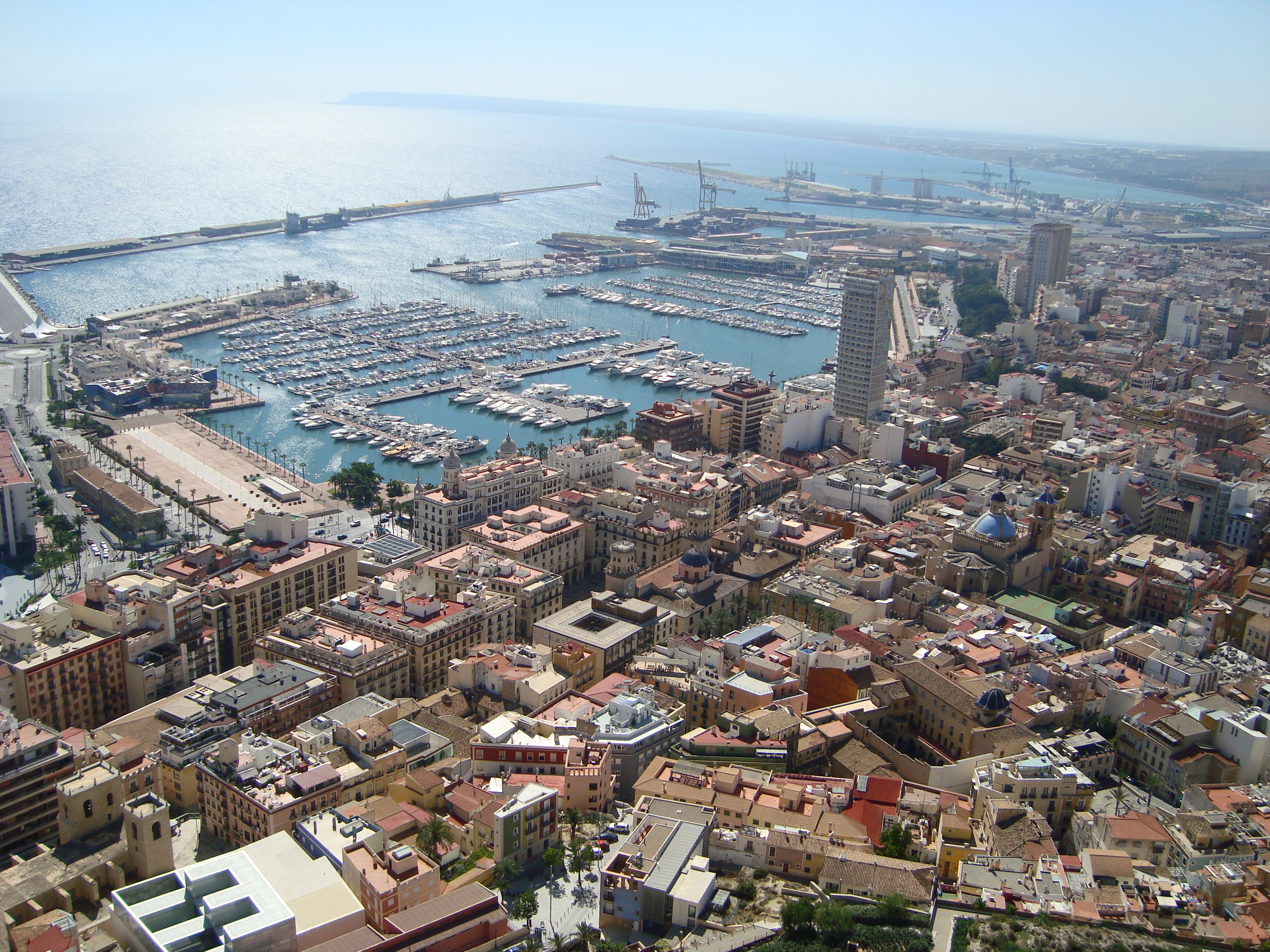 Alicante, Spain